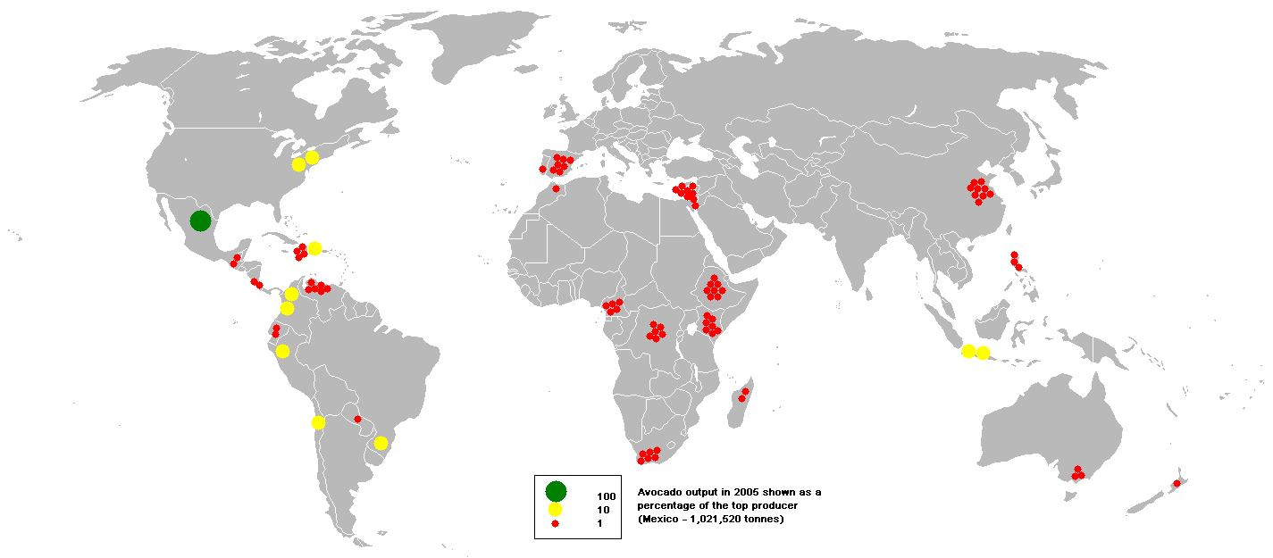 This bubble map shows the global distribution of avocado output in 2005 as a percentage of the top producer (Mexico - 1,021,520 tonnes). This map is consistent with incomplete set of data too as long as the top producer is known. It resolves the accessibility issues faced by colour-coded maps that may not be properly rendered in old computer screens. Data was extracted on 9th June 2007 from Based on Image:BlankMap-World.png